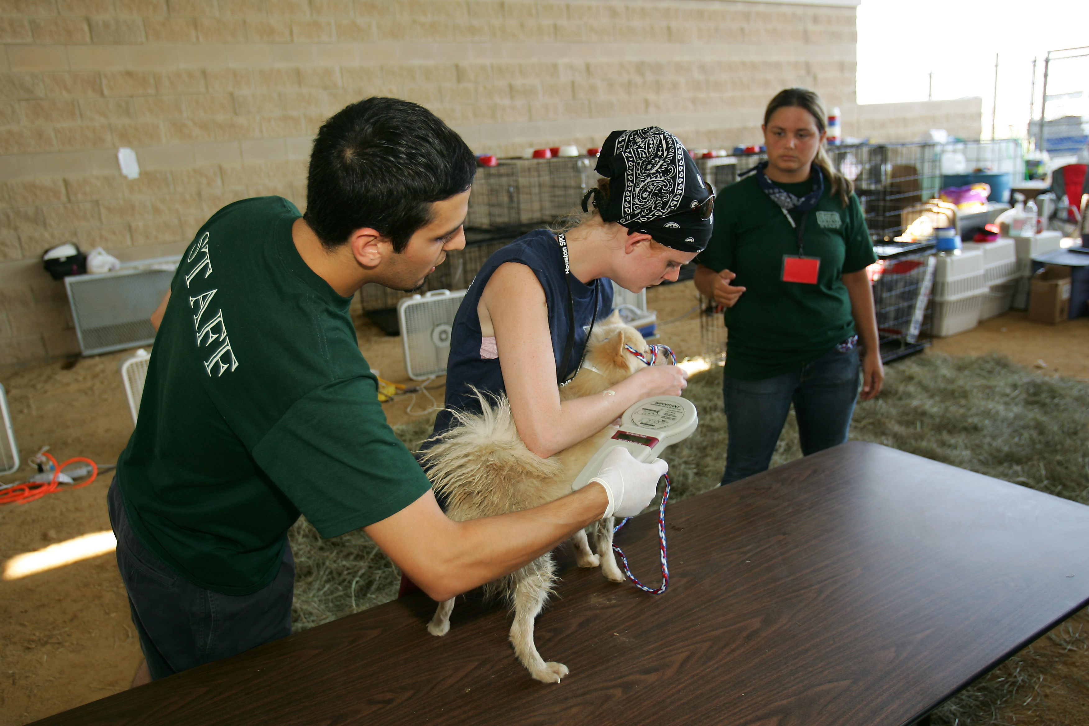 Beaumont, TX, September 30, 2005 -- Veterinarians from the National Veterinarian Response Team (NVRT) examine implant a microchip into a dog for tracking purposes brought in to the Animal Disaster Response Facility staged in the Ford Arena outside Beaumont following Hurricane Rita's landfall. Following the examinations and shots they will be held until their owners return from evacuation. Bob McMillan/ FEMA Photo